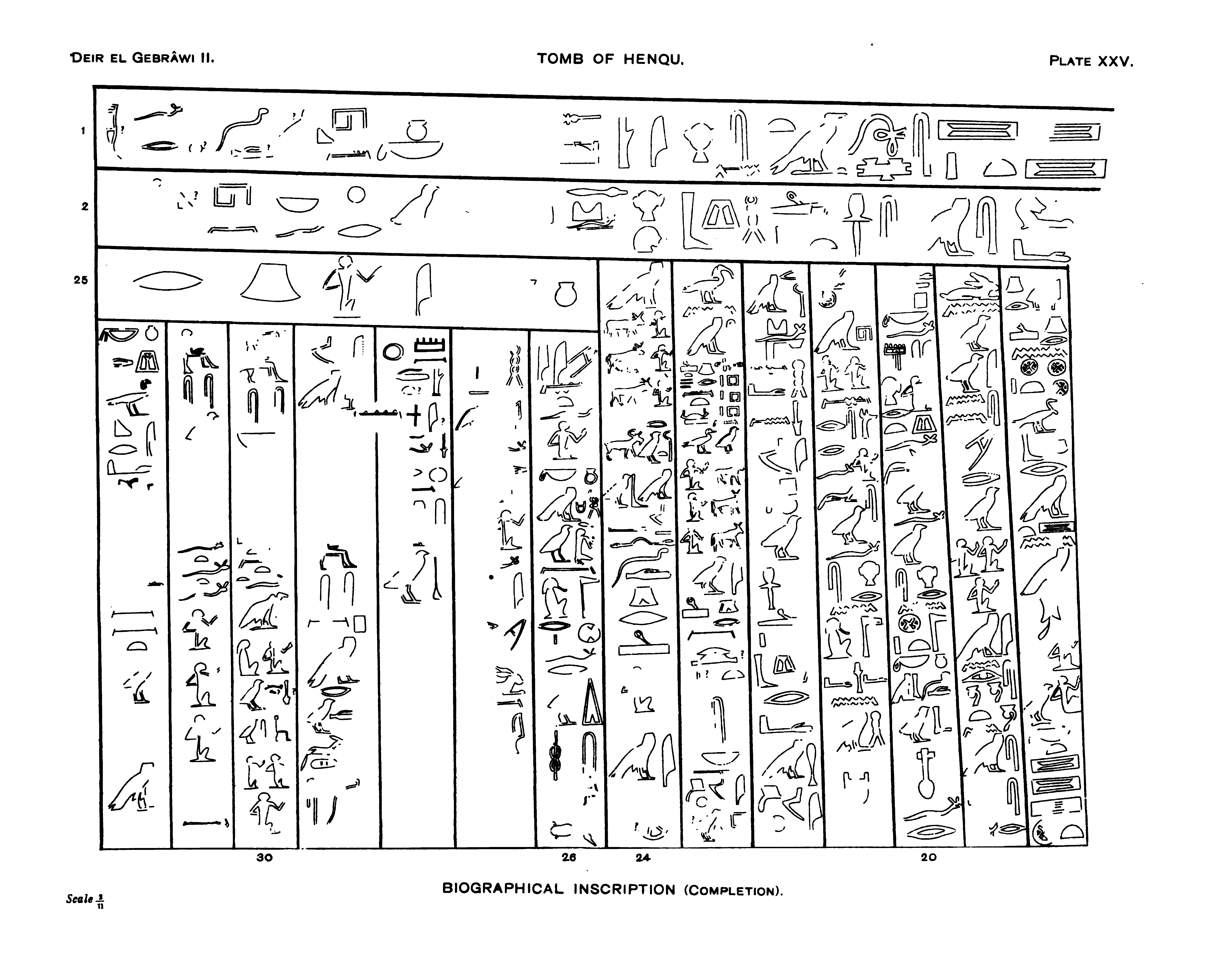 Deir el-Gebrawi rock tomb N67 (Henqu II)